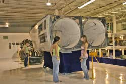 Intake of the concorde in a museum